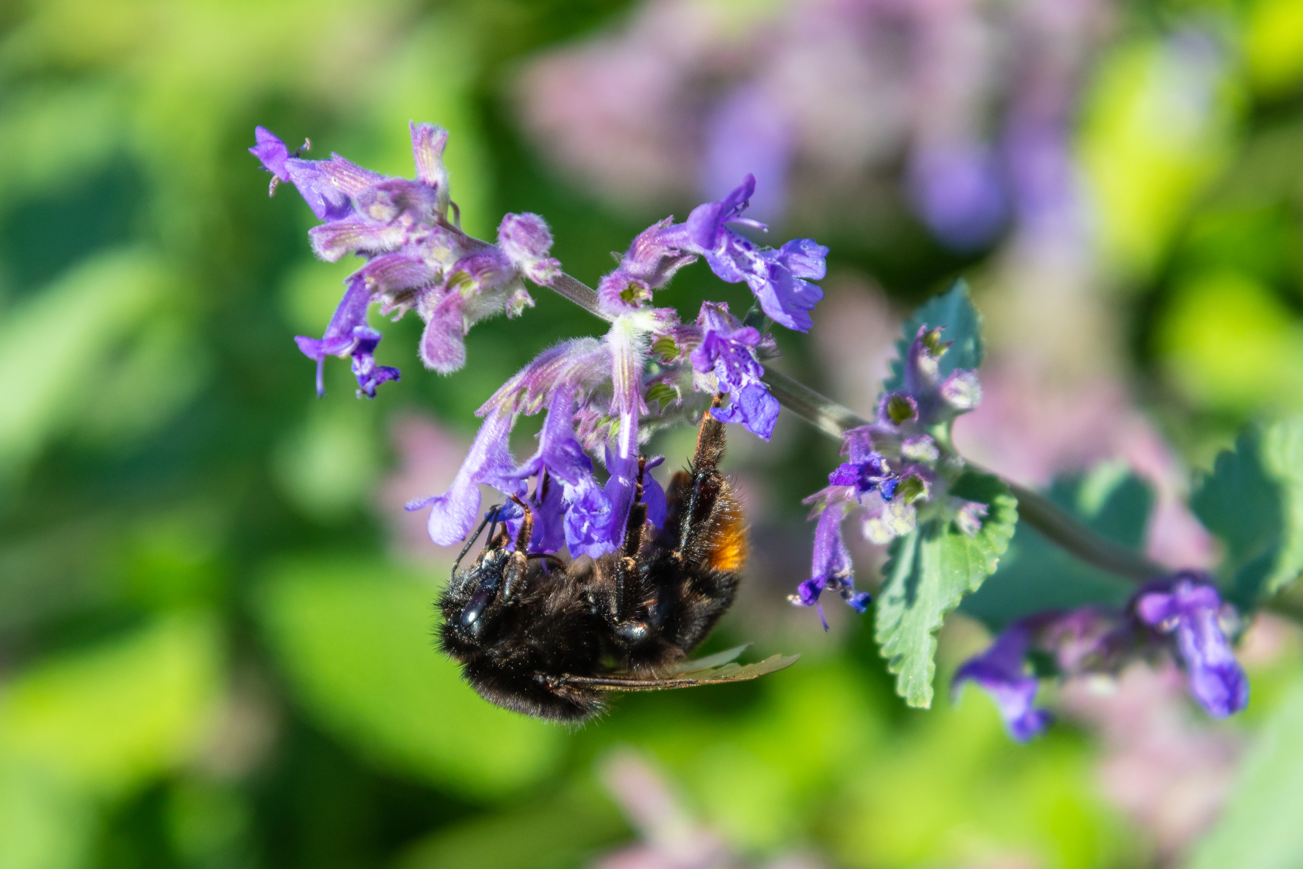 Red-tailed bumblebee (Bombus lapidarius), Bad Wörishofen, Germany